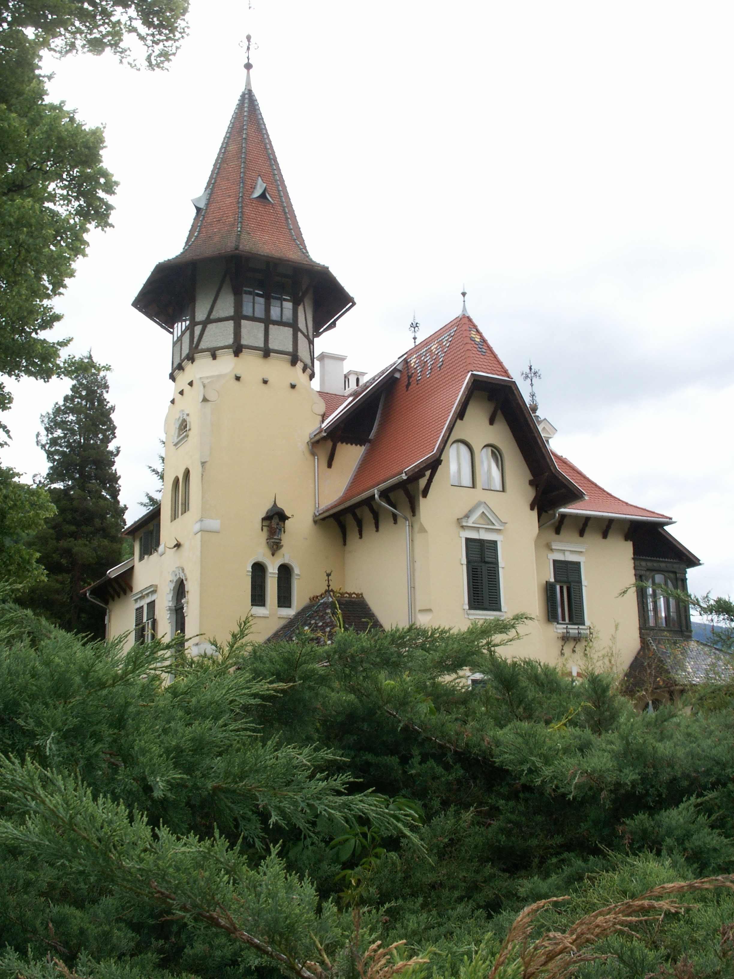 Villa Verdin in Millstatt / district Spittal an der Drau in Carinthia / Austria / EU.